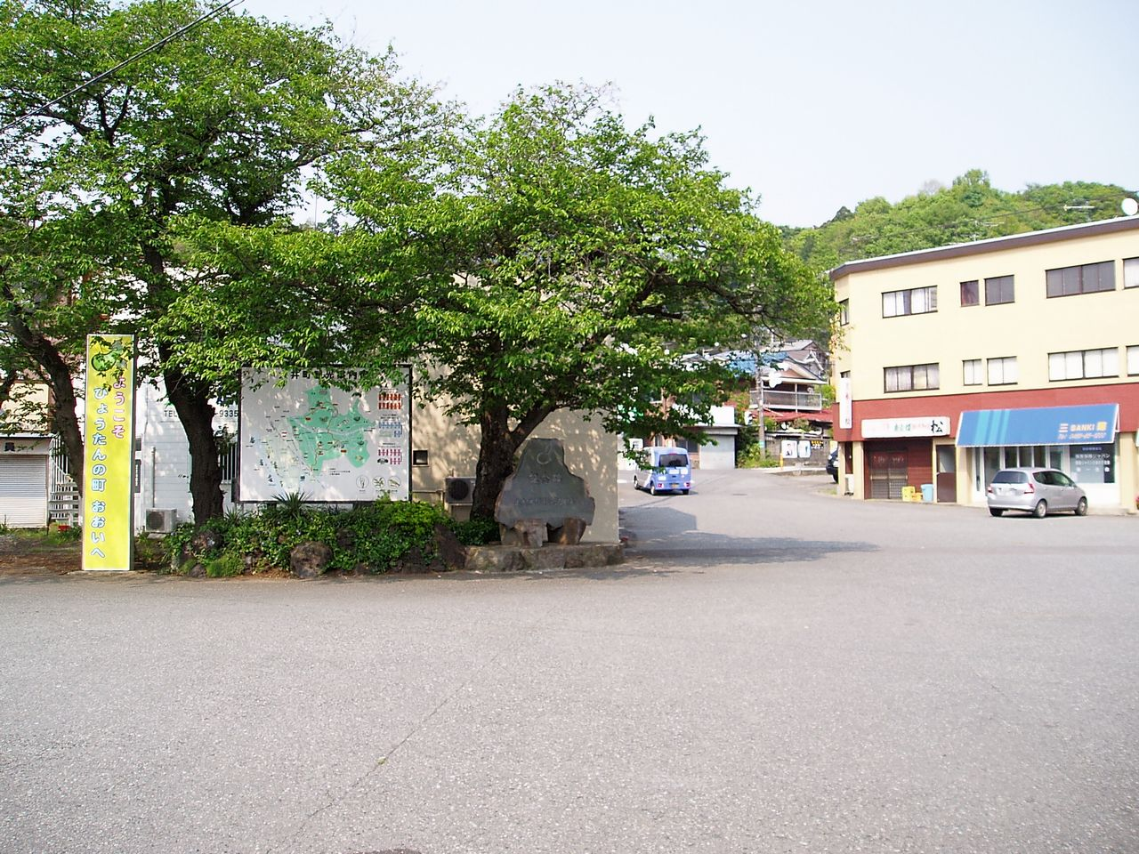 Front of Kami-oi Sta.